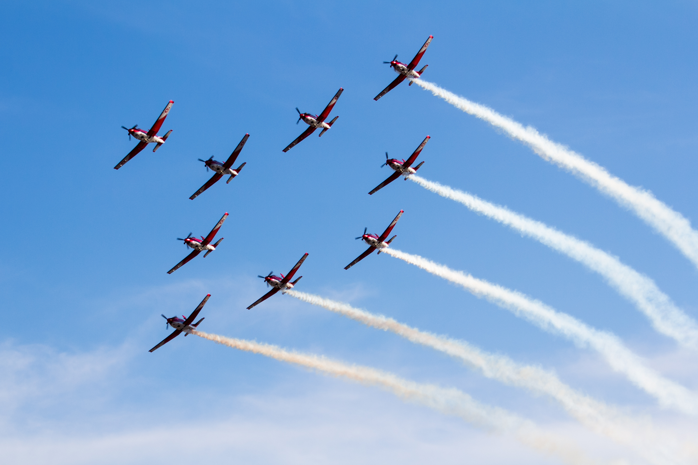 The Swiss Air Force PC-7 Team performing at the 2015 Malta International Airshow